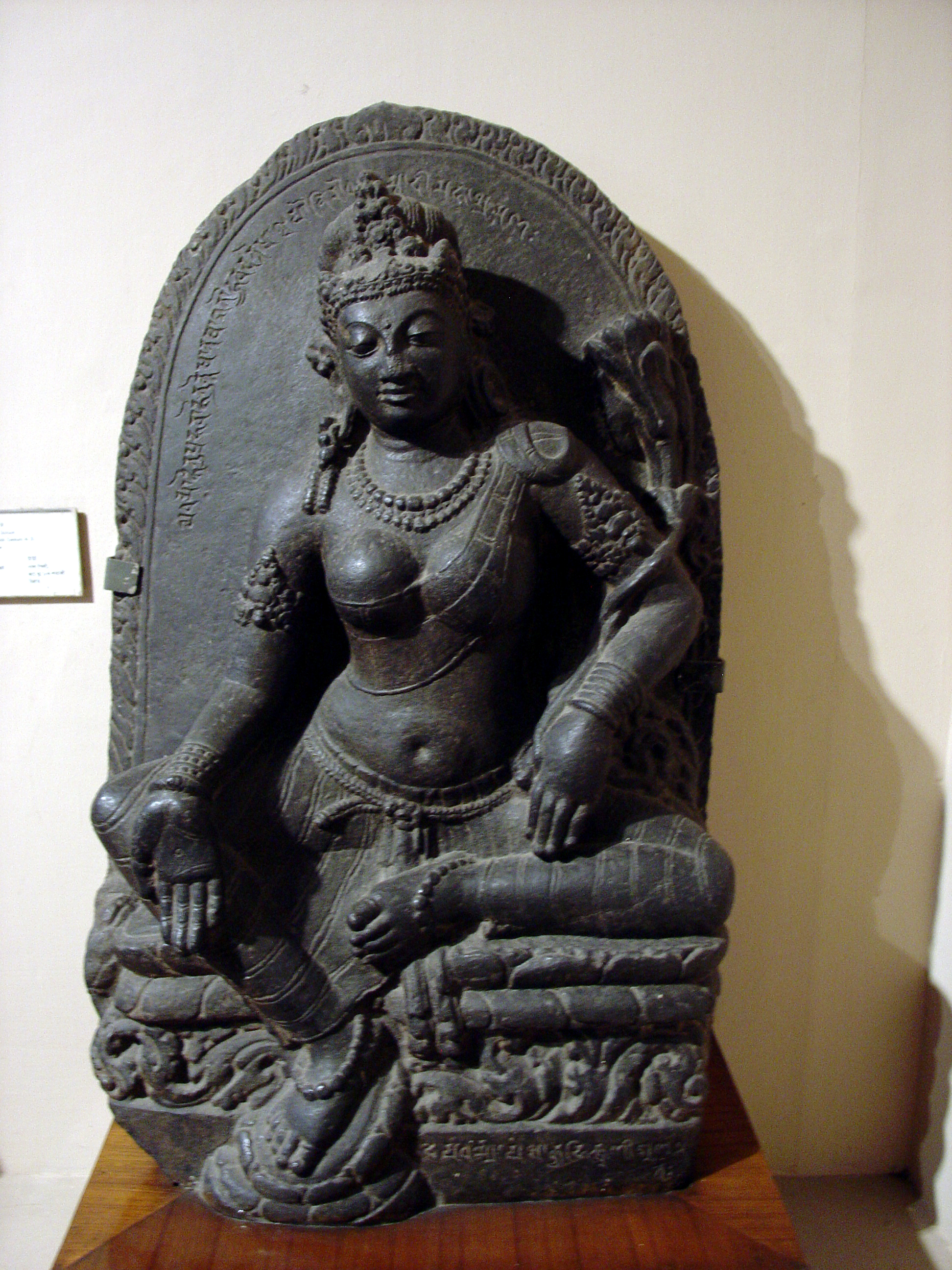 Tara. Bihar, 10th century. Indian Museum, Calcutta The goddess's right hand is posed in varada mudra, the mudra of giving.